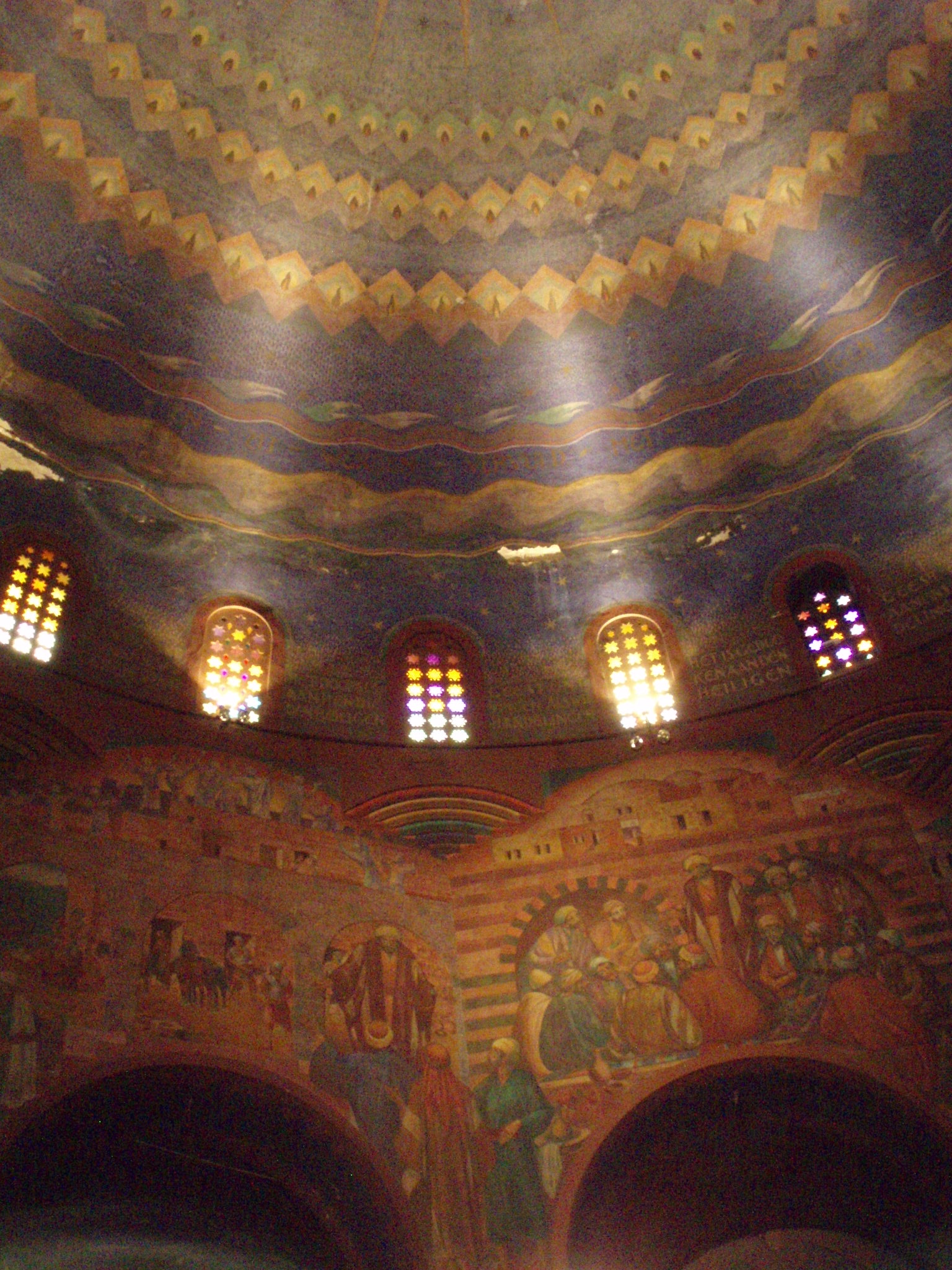 Ceiling of the Cenakel Church of H. Landstichting (The Netherlands)